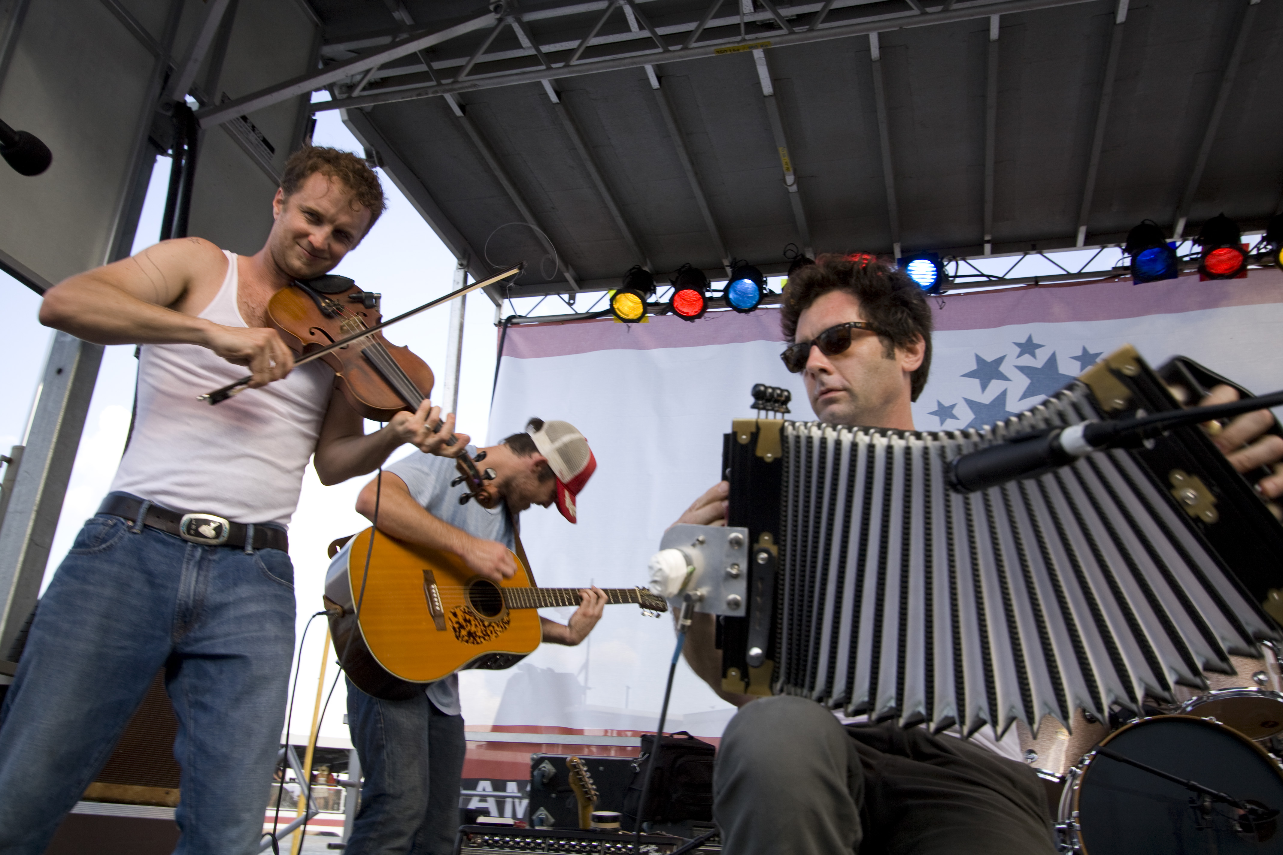 Lost Bayou Ramblers, French Quarter Fest, New Orleans.